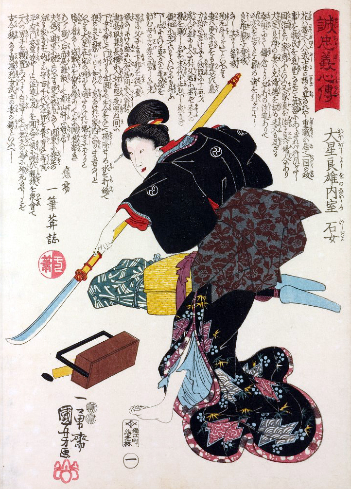 Ishi-jo, wife of Oboshi Yoshio, one of the "47 loyal ronin." Print by Kuniyoshi, from the series Seichi Gishin Den, 1848.